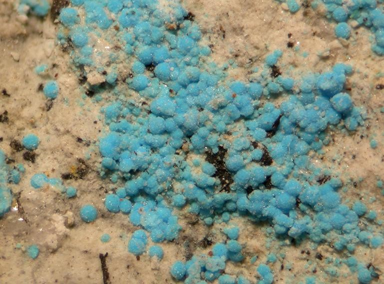 Decrespignyite-(Y) Locality: Paratoo copper mine, Yunta, Olary Province, South Australia, Australia (Locality at ) Field of view 4 mm. Specimen and photo Leon Hupperichs.